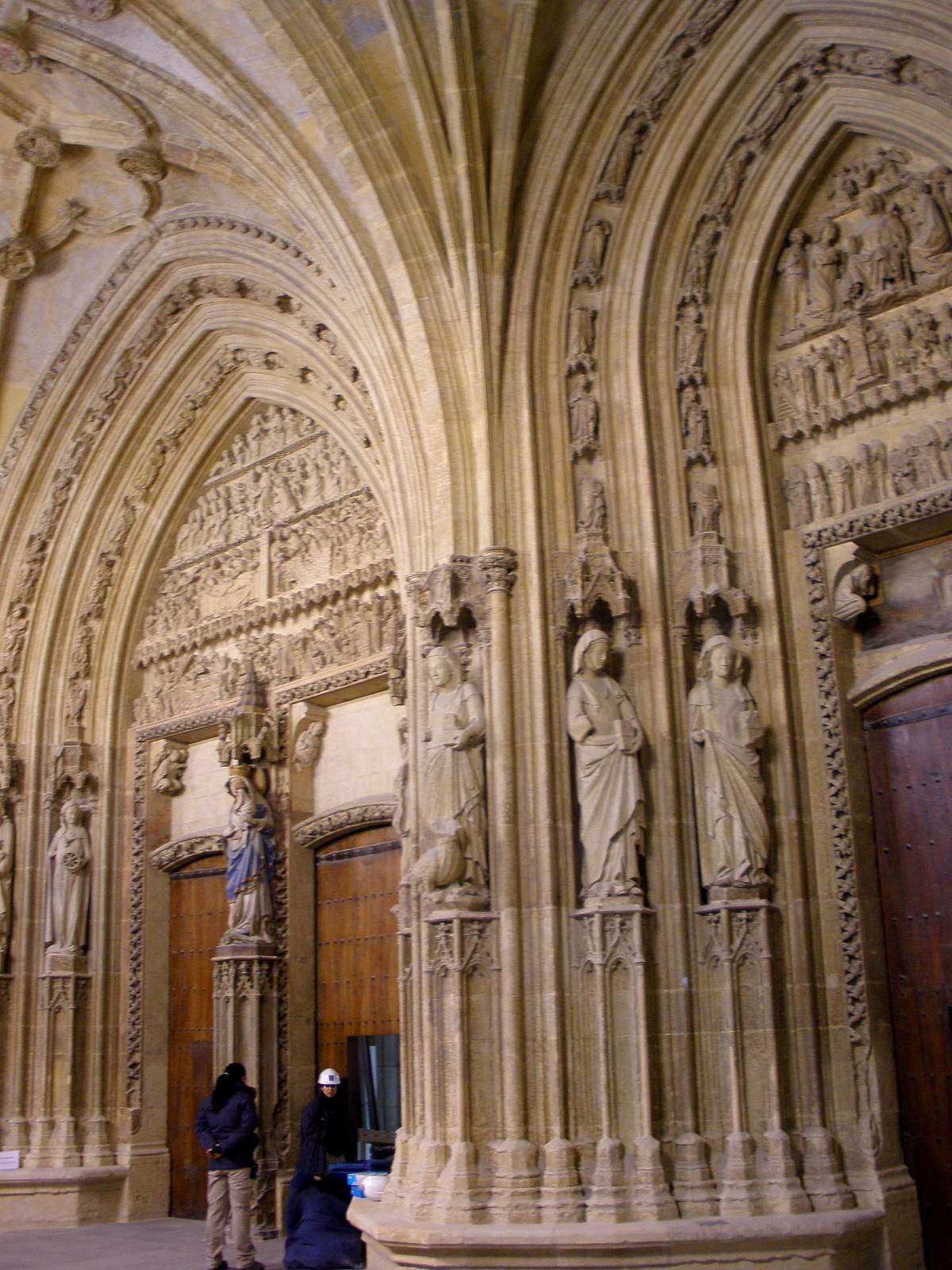 Pórtico de la Catedral de Santa María (Catedral Vieja) de Vitoria-Gasteiz